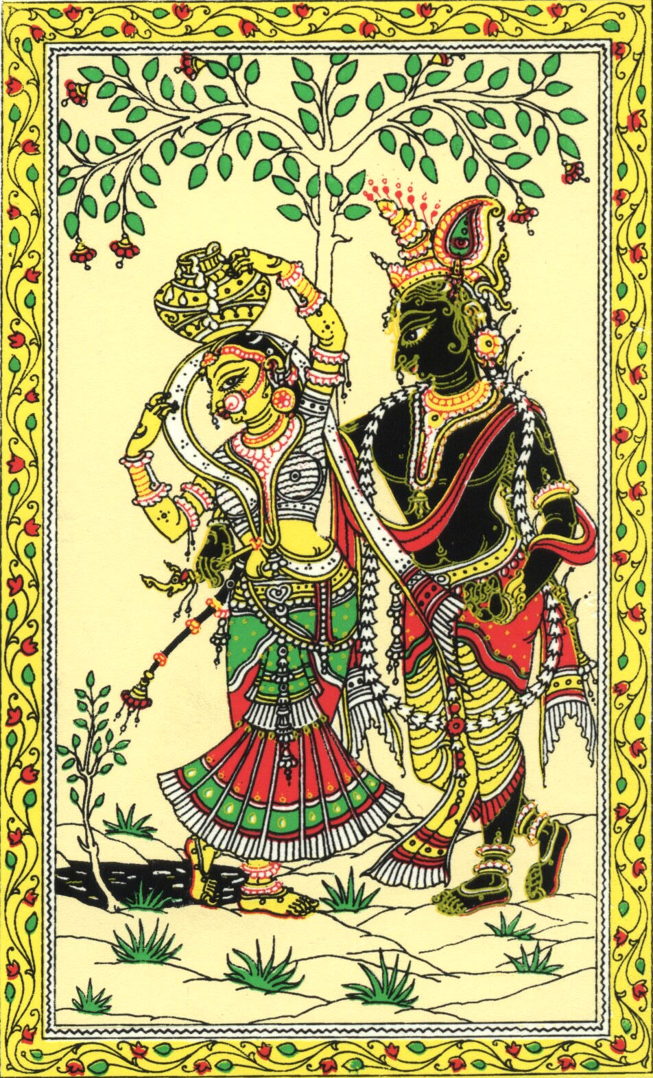 Peinture Patta Chitra - Patta Chitra Painting, showing Radha and Krishna